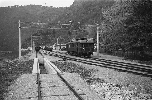 NSB type 64 electric multiple unit at Granvin on Hardangerbanen, Norway.